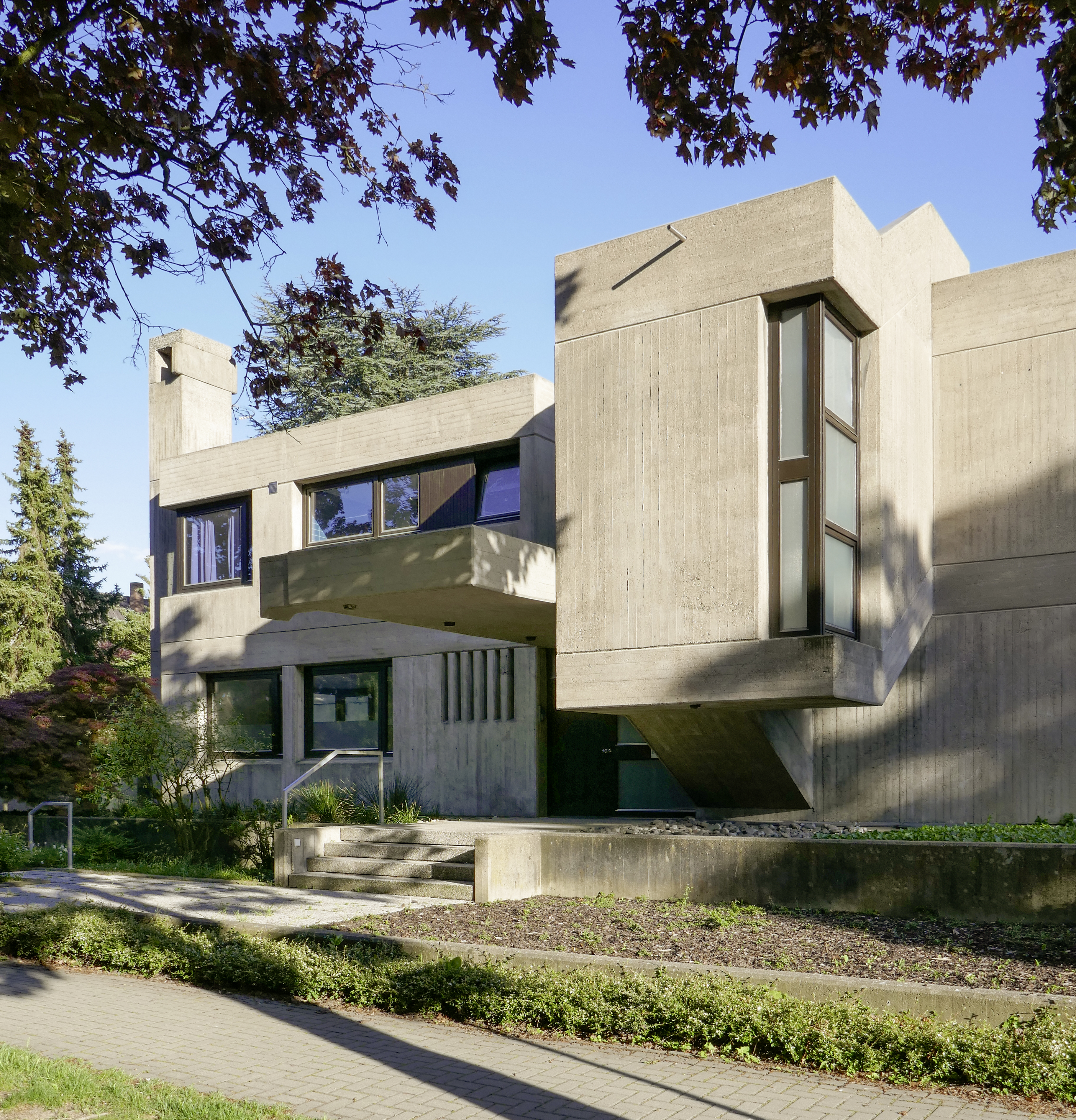 House Steimann Ahlen